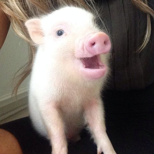 Dennis singing new hit from Asking Alexandria -- I Won`t Give In